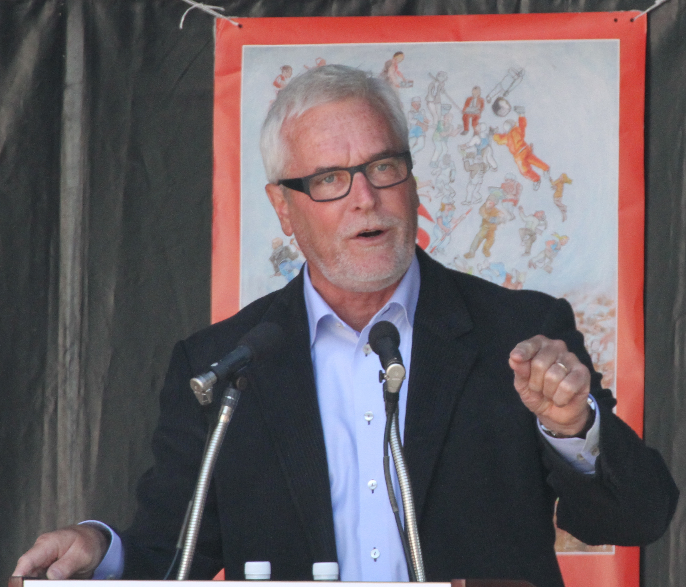 Mayor of Odense, Anker Boye, at May Day event.